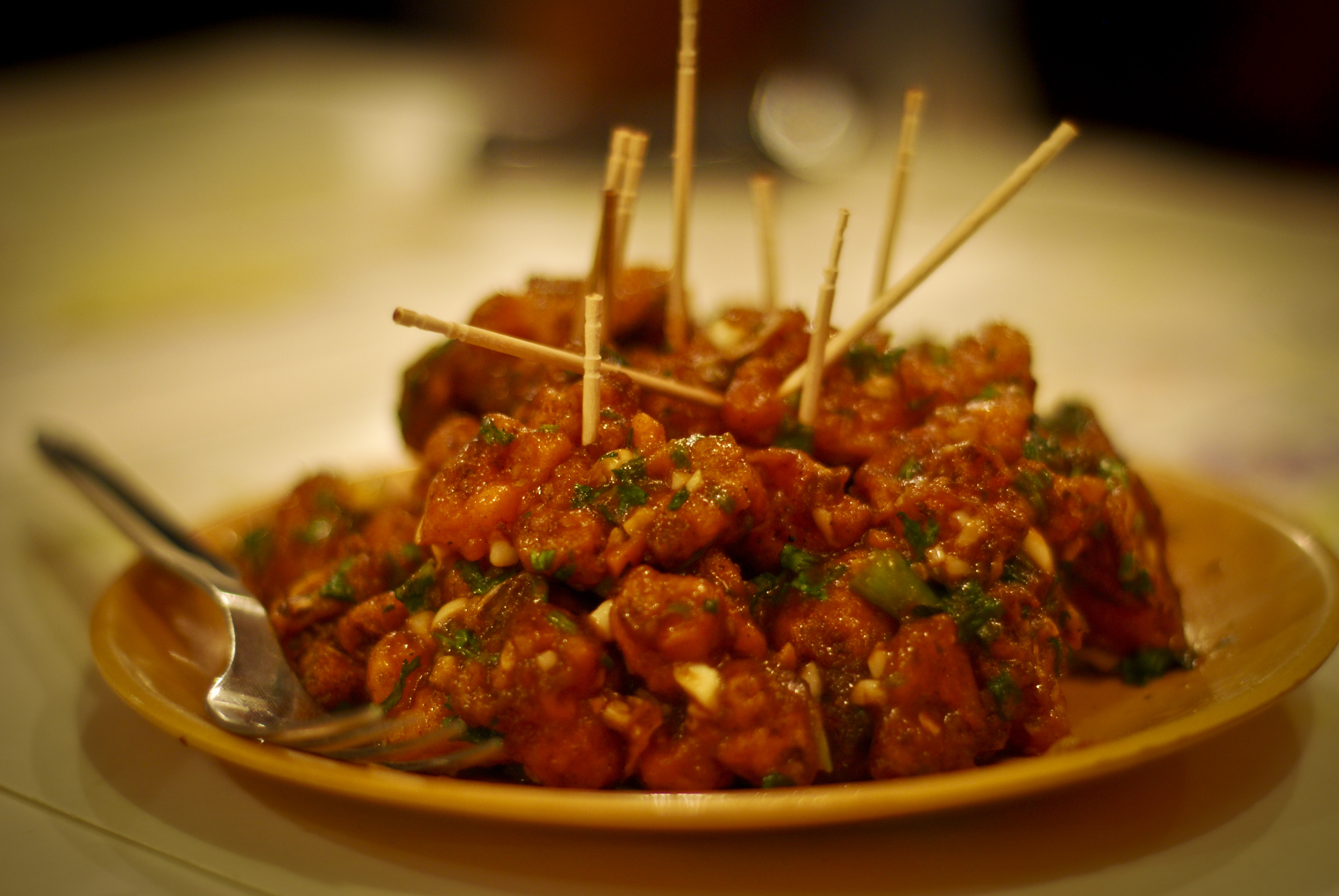 It was awesome, it tasted delicious, and it had the right amount of crunchiness to it. Damn, typing all that made me hungry again.